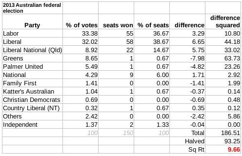 Gallagher Index for 2013 Australian Federal Election